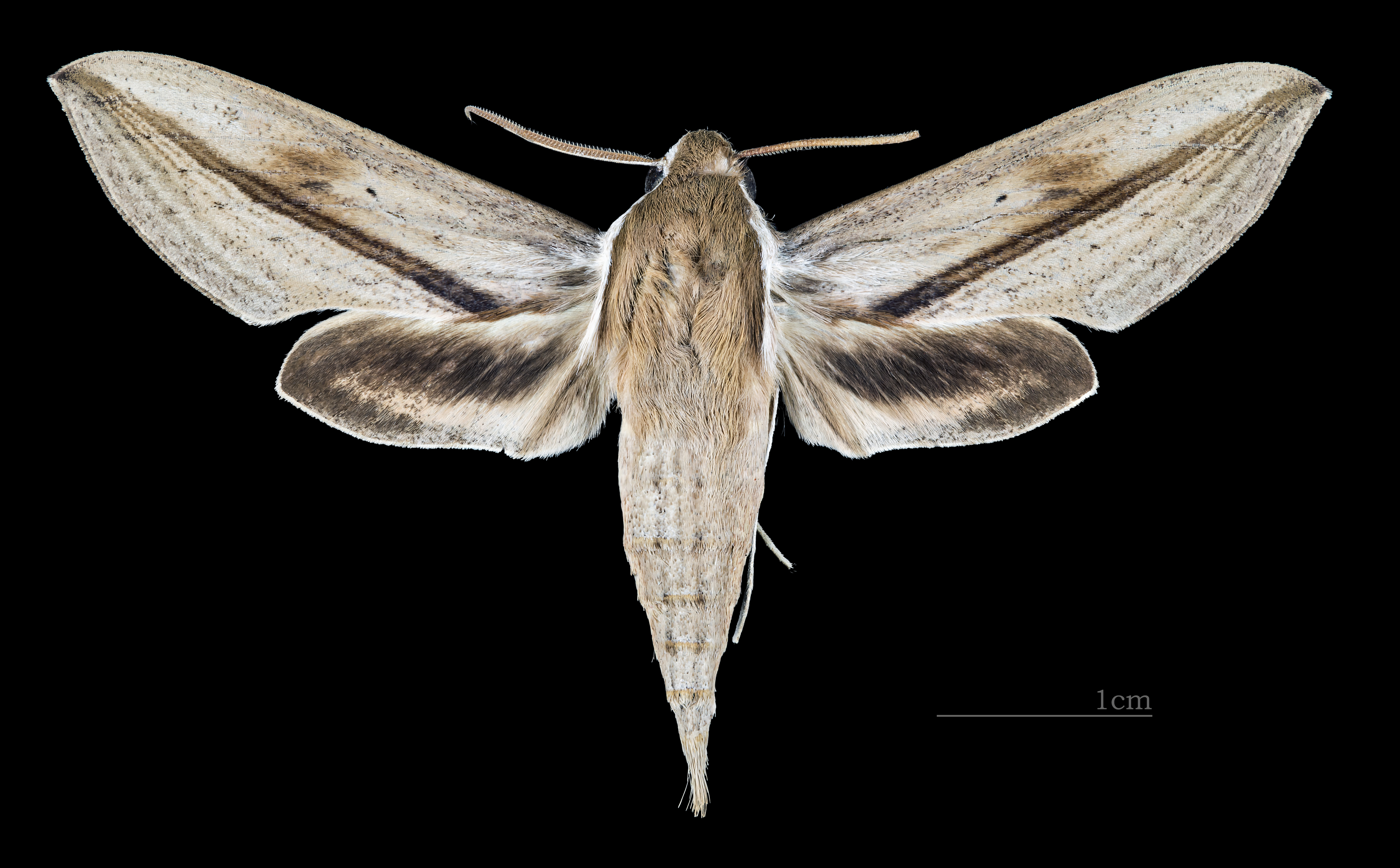 Xylophanes turbata - Dorsal side Collection of the Mathematician Laurent Schwartz